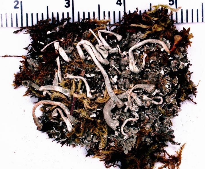 Cladonia fimbriata (L.) Fr., 1831 (photograph of a herbarium specimen) Growing in moss in low woods and shaded logs at Big Stone Bay on the margins of Wilderness State Park, Emmet County, Michigan, USA; collected and identified by Richard E. Riefner (No. 81-202, 22 Jun 1981); specimen is now in the Lichen Herbarium of the New York Botanical Garden. (millimeter scale)